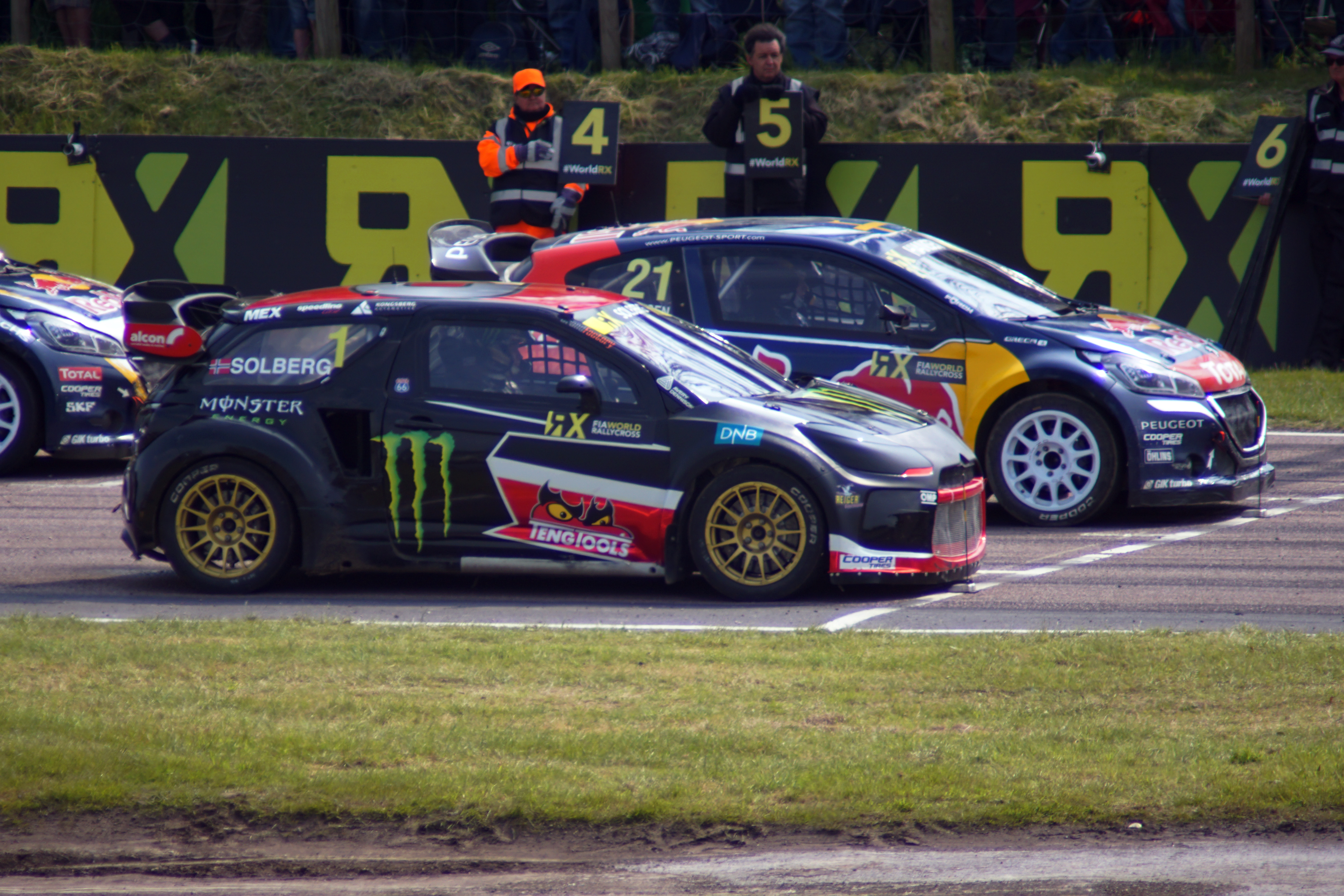 Action from the 2016 FIA WorldRX Rallycross Championship round at GB race track, Lydden Hill. A great spectator motorsport!